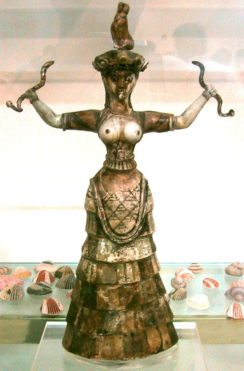 Snake goddess from the Palace of Knossos, Crete.